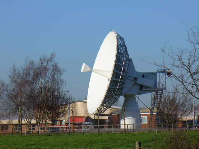 Satellite Dish, RAF Oakhanger We know you're out there!